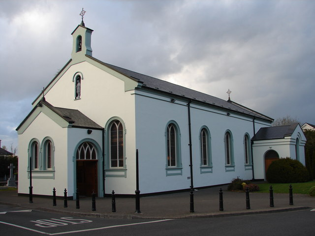 St Columba's Church